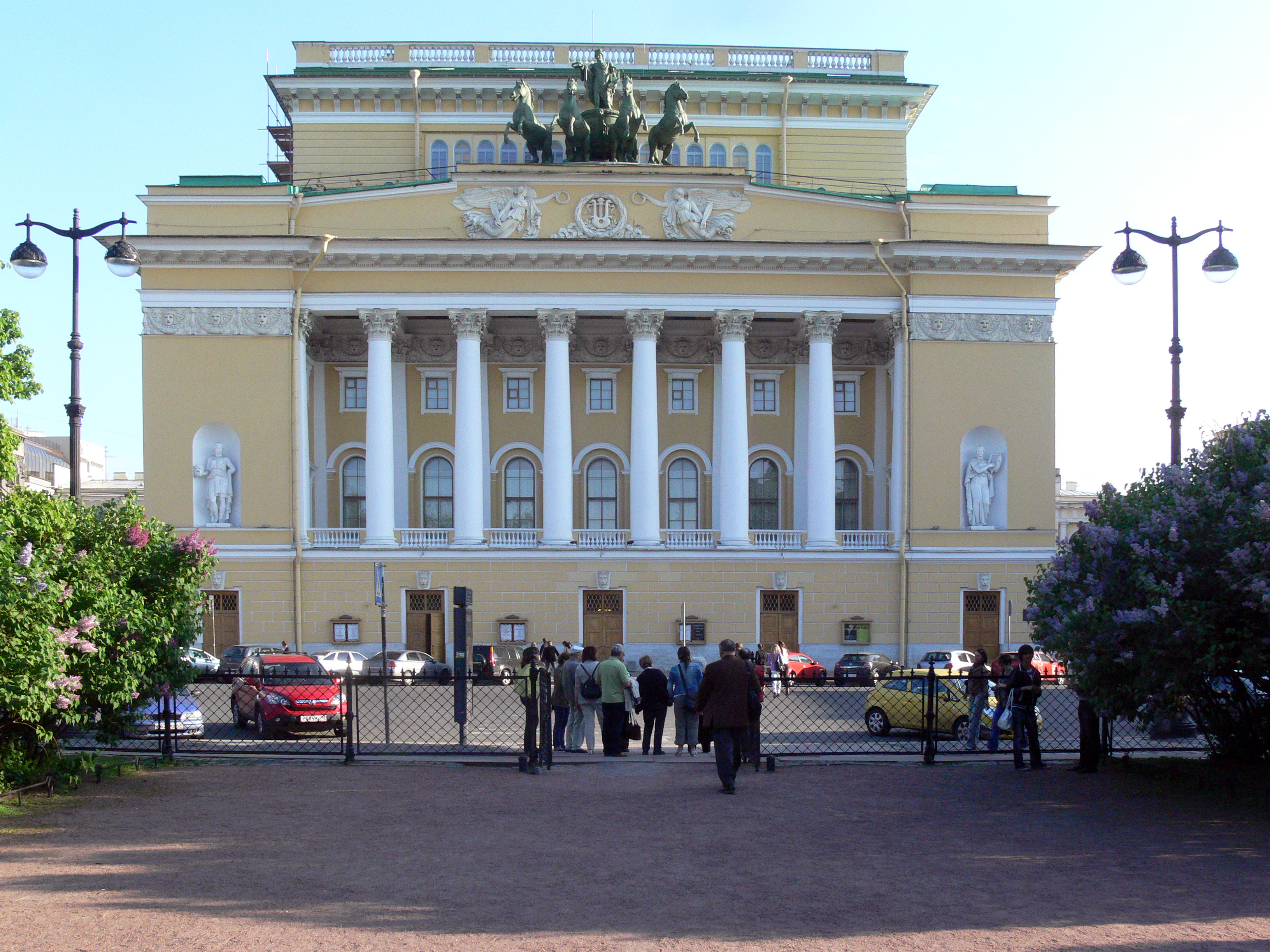 Saint Petersburg (Russia), Nevsky Avenue, Alexandrinsky Theatre.